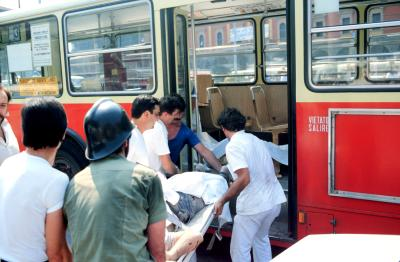 Bombing at Bologna: August 2nd 1980